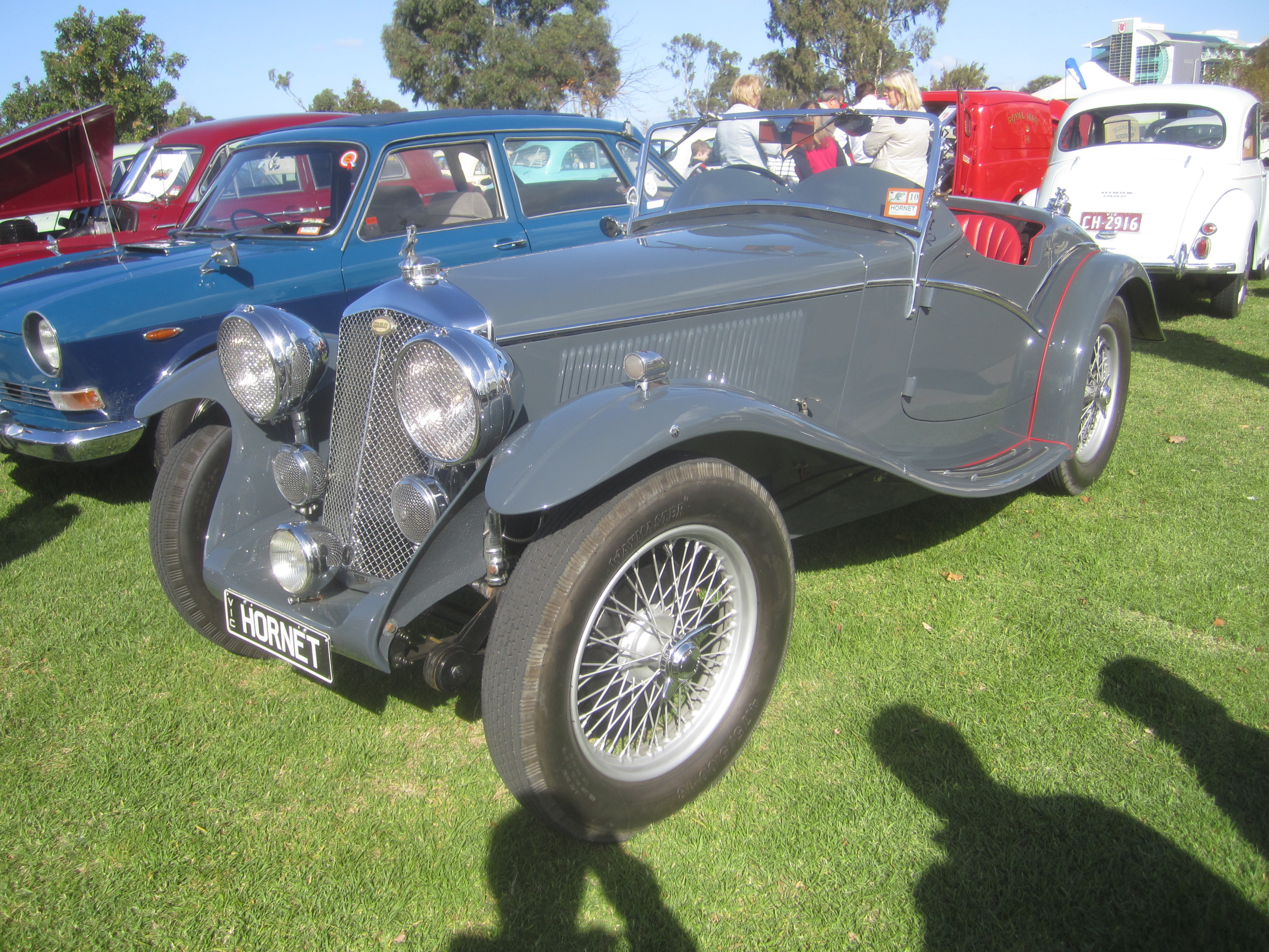 The Wolseley Hornet was built from 1930-36, as Wolseley was taken over by Morris in 1927, it was based on the Morris Minor but it got a 6 cyl engine, which was also used in MG F, L, K and N type. It was available in Open 2 seater and from 1932, 2 and 4 seat Coupes. From 1932-34 the Hornet Special was available withtwin carbs and higher compression. Engine; 1271cc OHC 6 cyl